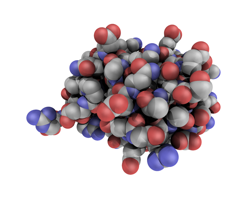 A space-filling representation of a ubiquitin molecule. Carbon atoms are grey, oxygen atoms are red and nitrogen atoms are blue. Image was created using PyMOL from PDB id 1ubi.